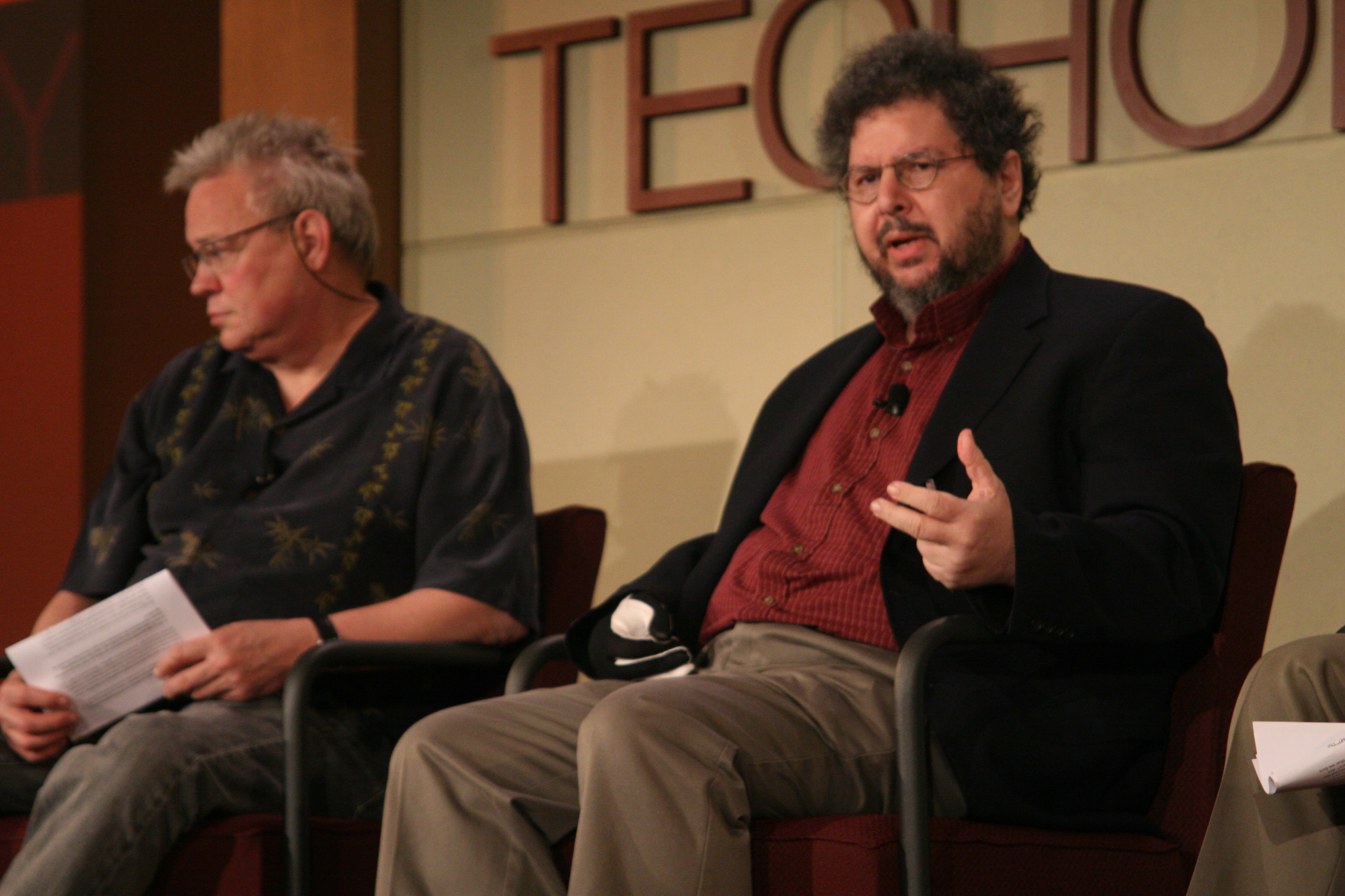 A conversation with David Gelernter, Yale University — Interview by: Brent Schlender and Peter Petre